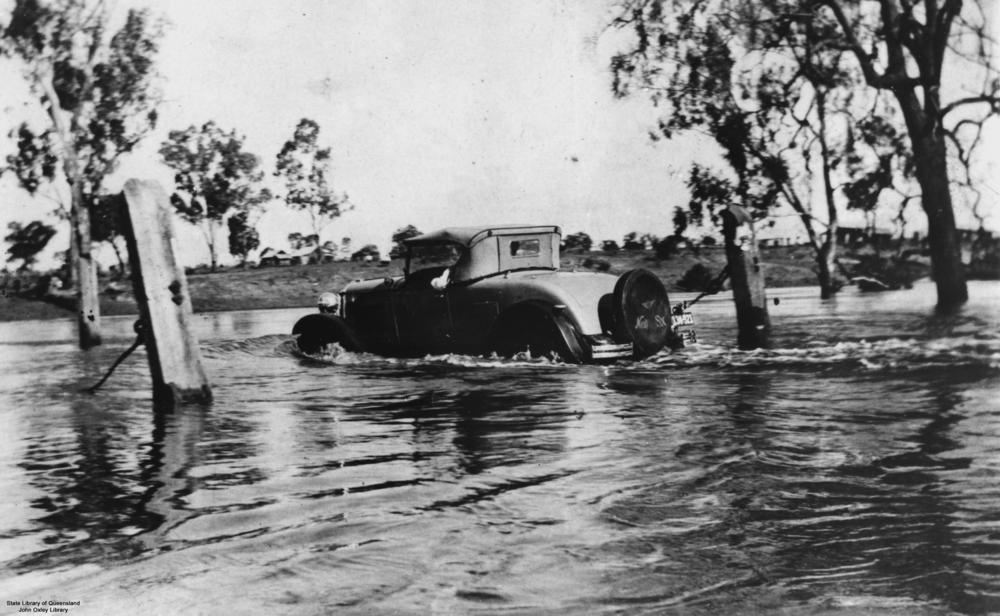 Flooded Dogwood Creek, Miles, Queensland, 1930s. Nash Six Roadster, ca. 1928, driving through the flooded Dogwood Creek, near Miles, Queensland.